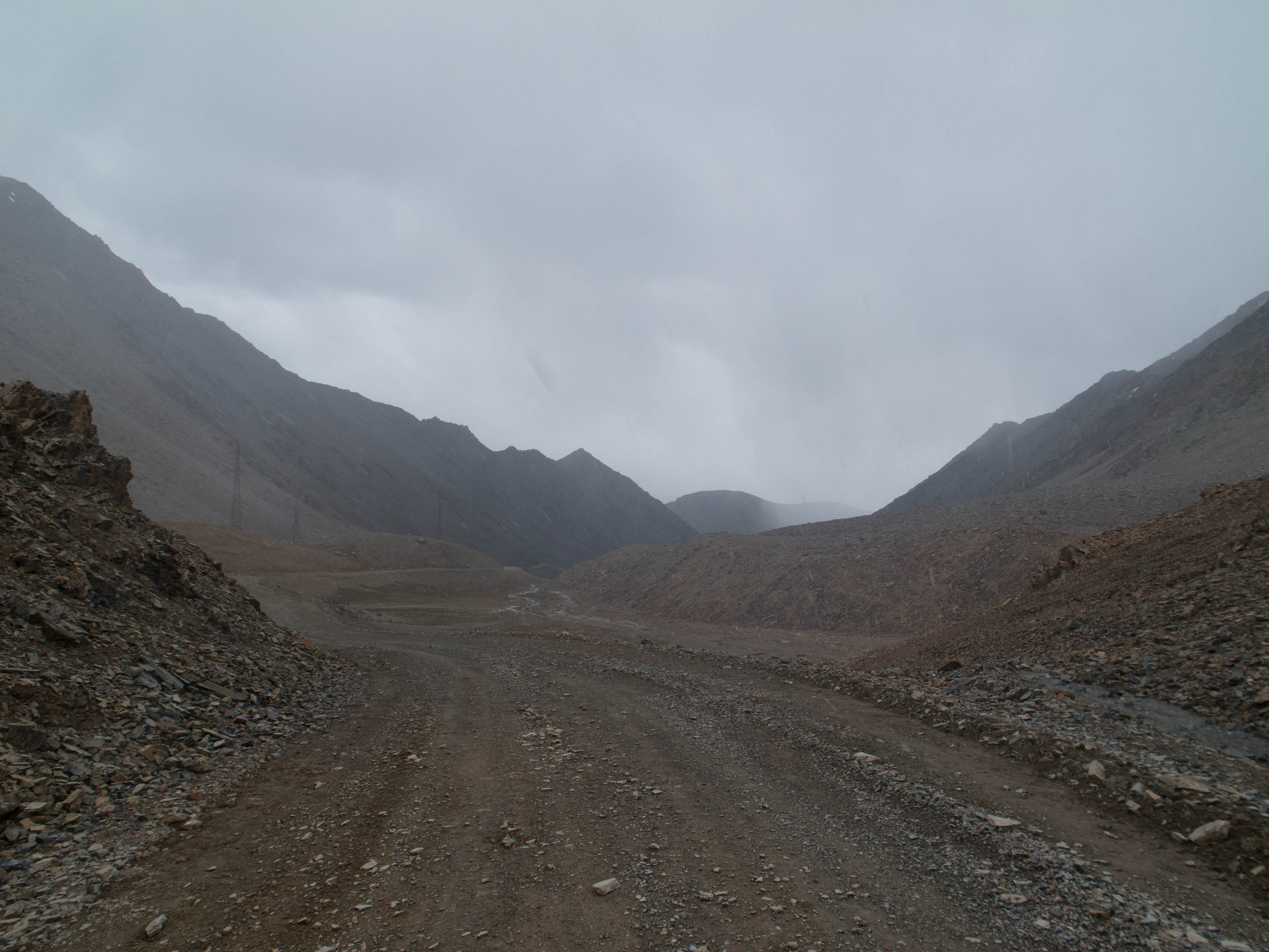 View of the A364 road at Seok Pass (Kyrgyzstan), facing southeast towards the upper Naryn River valley and China